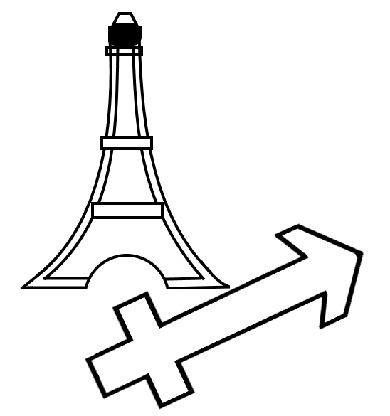 42. Jaeger Division, German Army, World War II